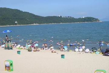 Beach in Shenzhen, Guangdong, China